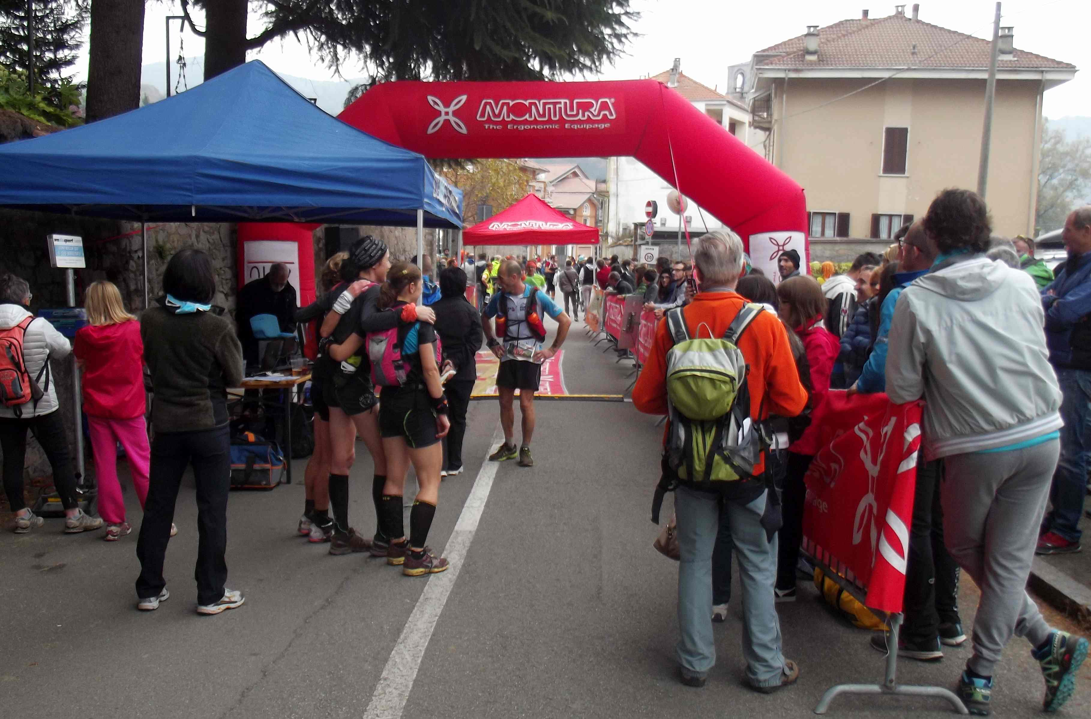 Trail del Monte Casto 2014 edition (Andorno Micca, BI, Italy)